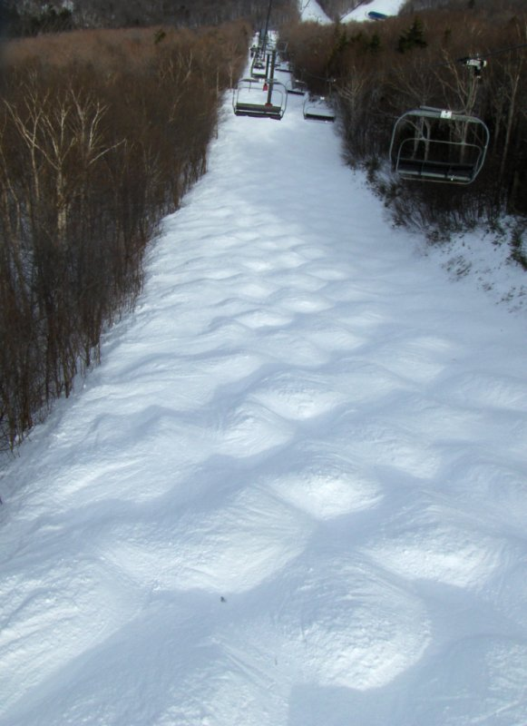 Encore trail at Sugarbush's Mt. Ellen.